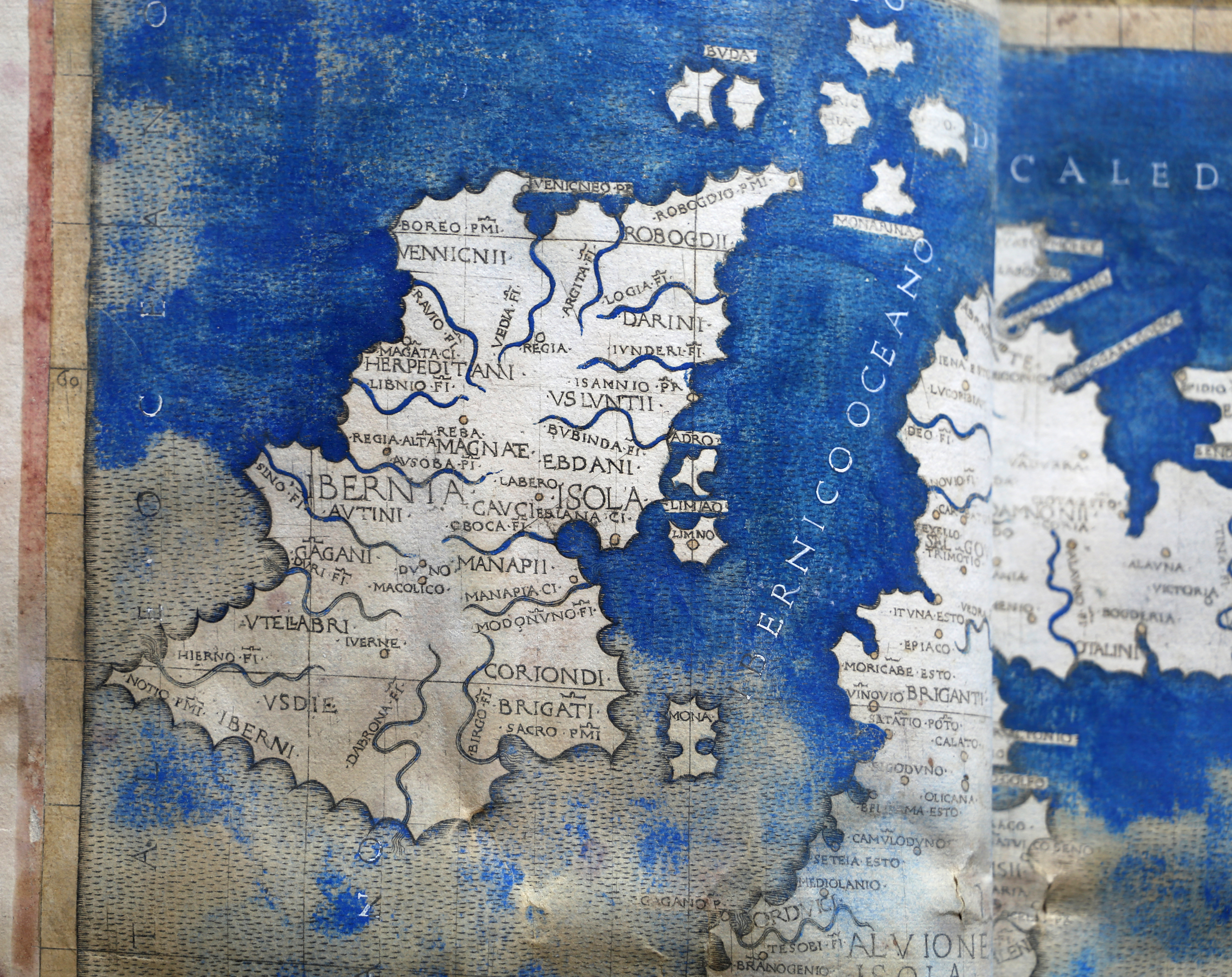 Geographia by Francesco Berlinghieri (Crusca)